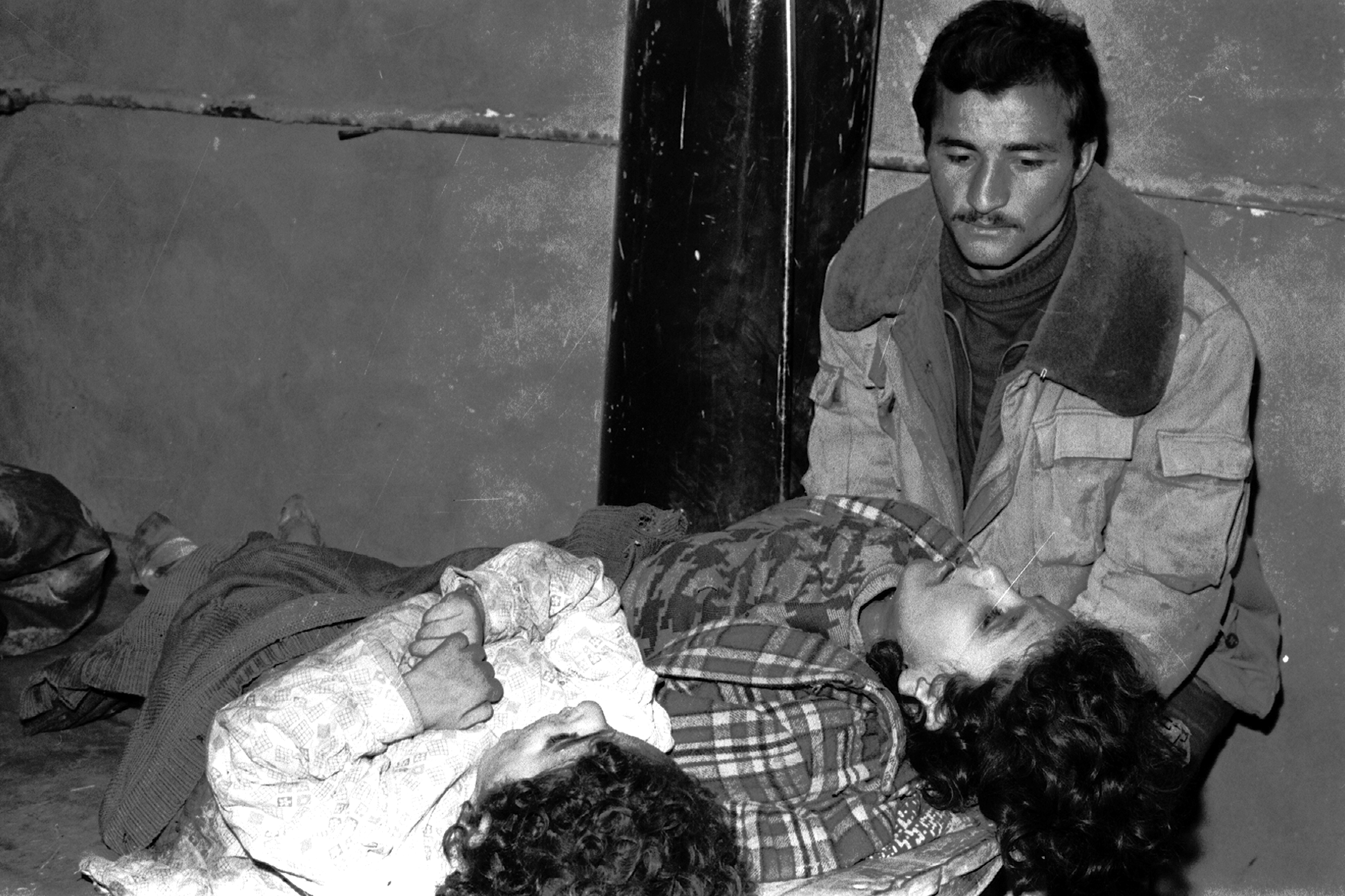 Azerbaijanians murdered in Khojali massacre. Father and his children.